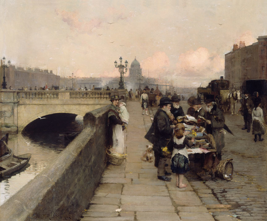 Location: Dublin, Liffey, Aston Quay, Custom House, O'Connell Bridge